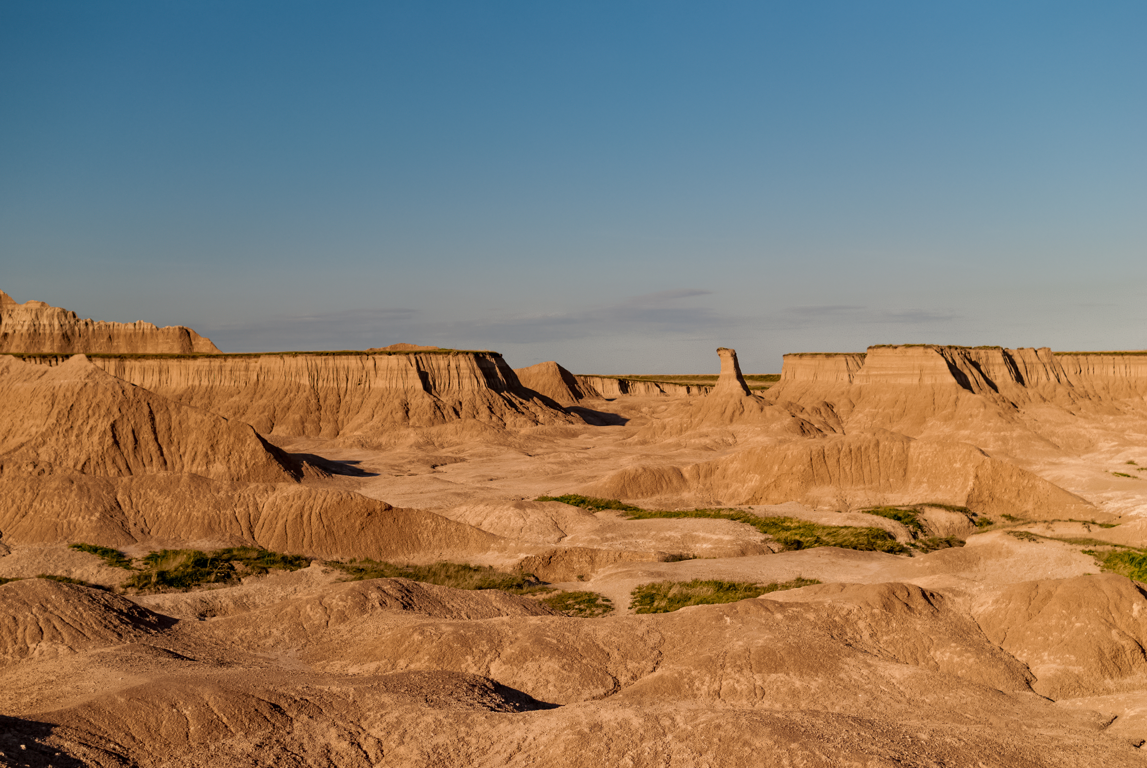 Rock erosion forming a series of plateaus